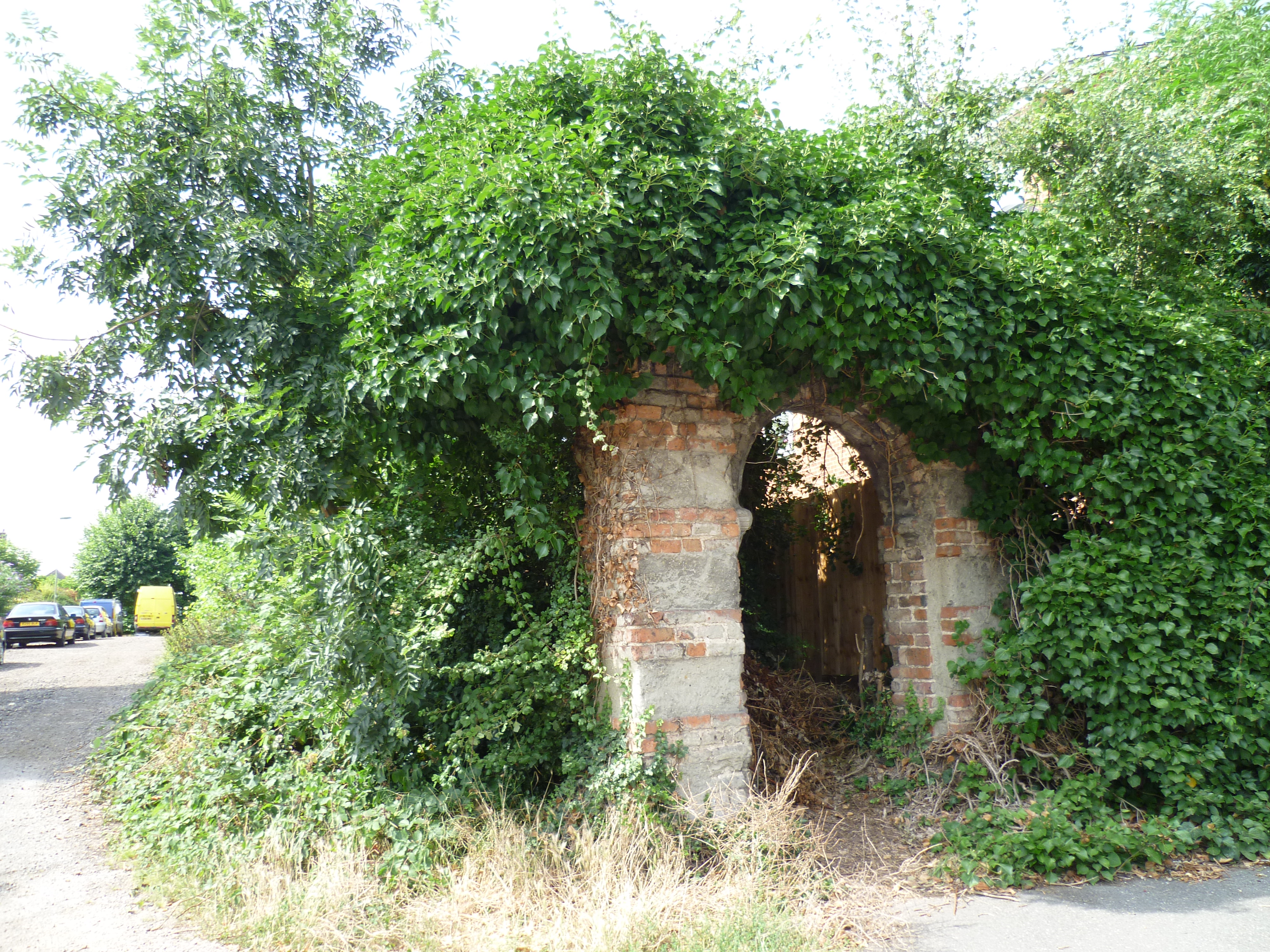 Remains of Greenhill Park gate